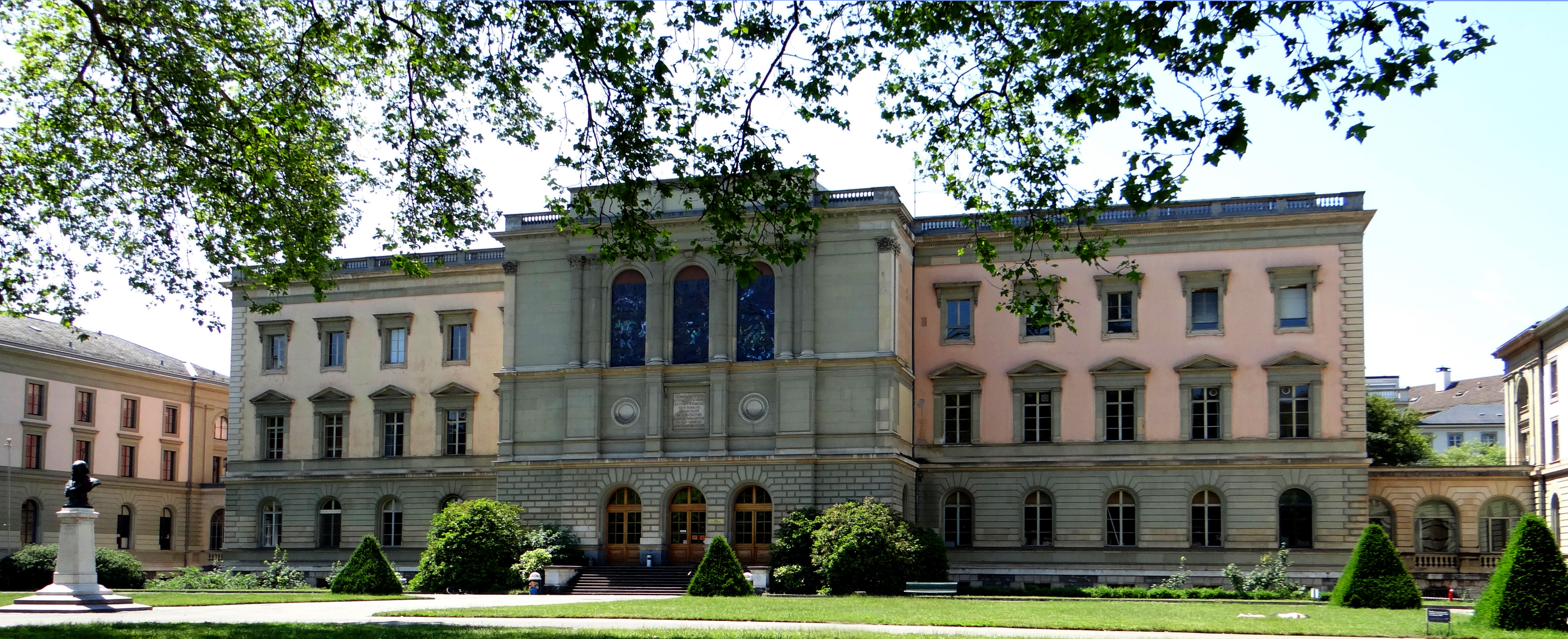 University of Geneva